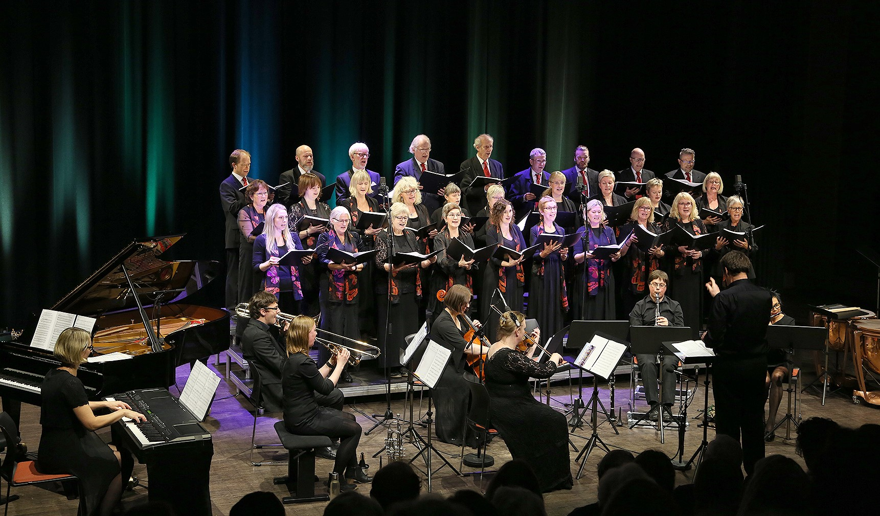 Helgeland Kammerkor singing in Sandnessjøen, Norway: 28 Oktober 2017